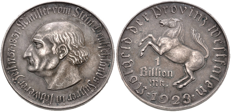 GERMANY, Weimarer Republik. Westphalen. NI-AR Notgeld 1 Billion Marks (60mm, 82.8 g, 12h). Triply dated 1757, 1831, and 1923. Bare head of Henrich Friedrich Karl keft / Horse rearing left. Menzel 14019.34. EF.